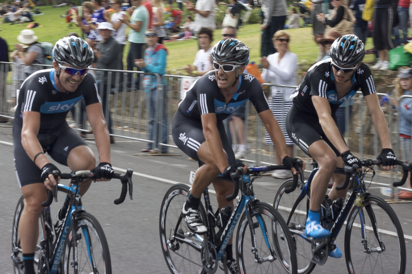 Team Sky finished one-two in the Cancer Council Helpline Classic 2010, the prelude to the Tour Down Under in Adelaide.